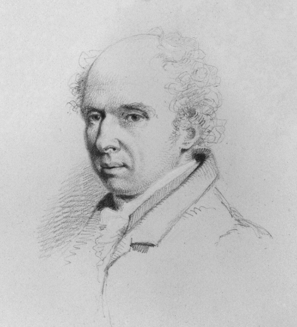 Arthur Aikin (1773–1854), English chemist, mineralogist and scientific writer